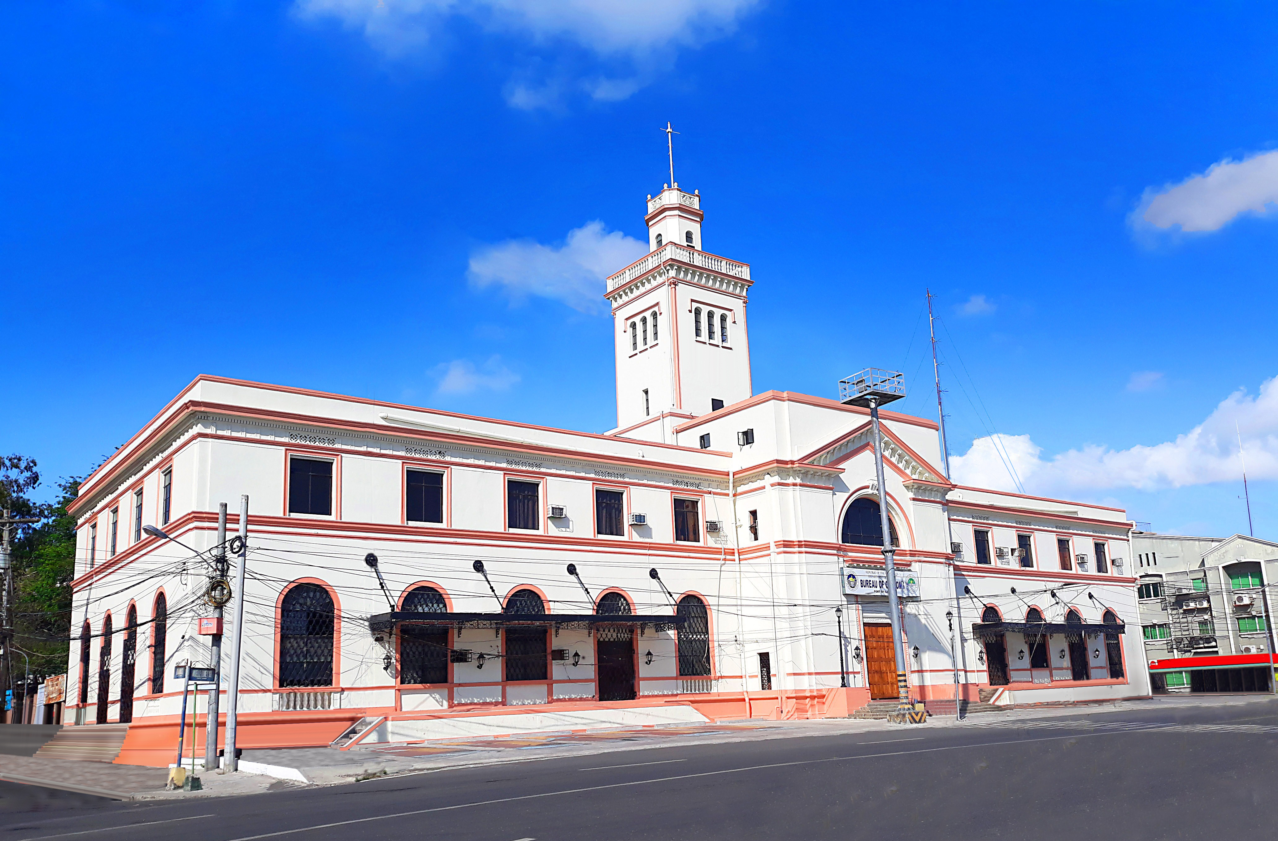 Aduana de Iloilo (Iloilo Customs House) - Designed and built in 1900s by the renowned Filipino Architect Juan Marcos Arellano, it is one of the three (heritage) customs houses in the Philippines that exists to this day (after the ones in Manila and Cebu).